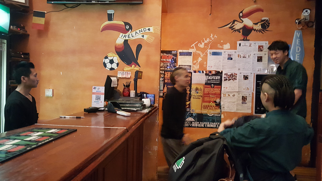 An Irish bar in Kunming (昆明), Yunnan (云南), China.